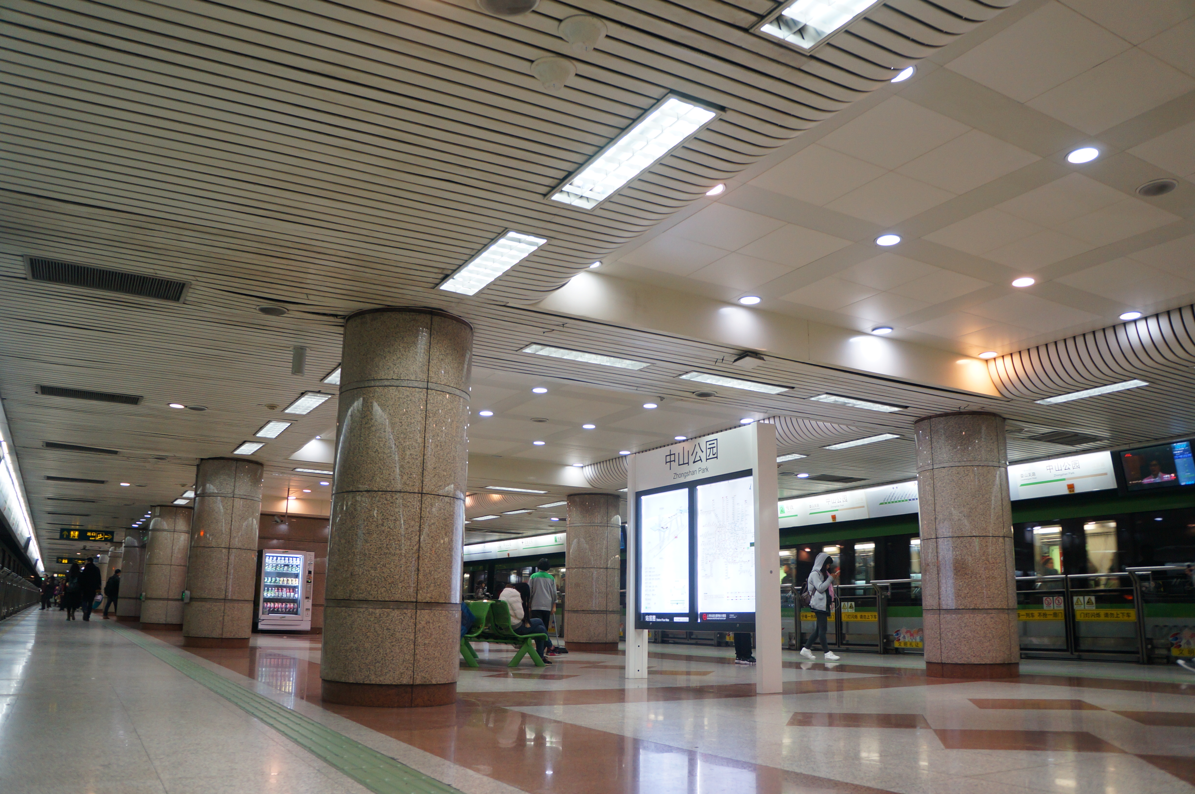 201701 Platform for L2 at Zhongshan Park Station